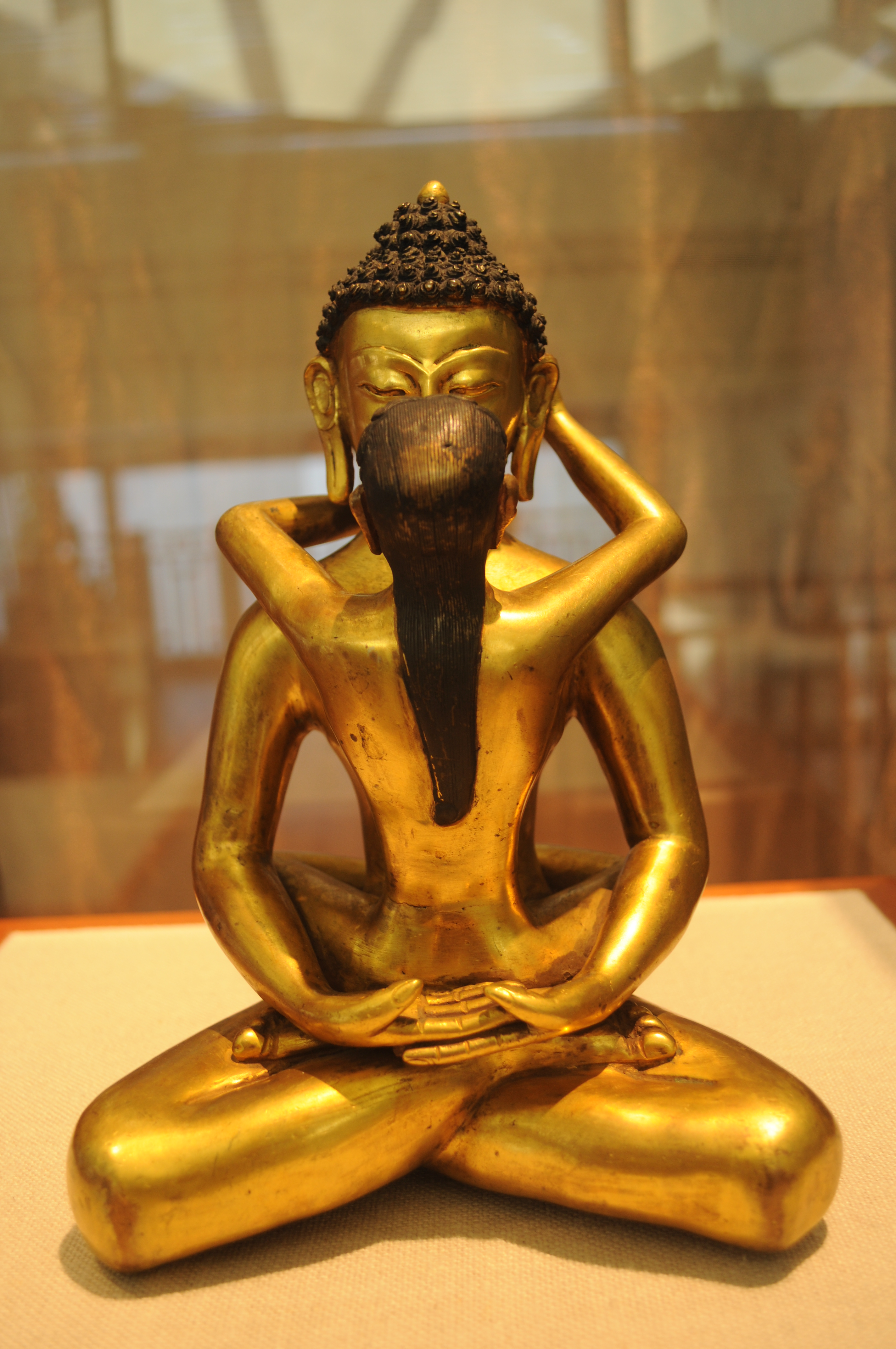 Samantabhadra (Ever-Perfect One) or (Tibetan) Kuntuzangpo, Tibet, early 20th century, copper alloy, gilt, paint. Accession number 2011.77. Part of the tantric art exhibit Honored Father-Honored Mother, Trammell & Margaret Crow Collection of Asian Art, Dallas, Texas, USA.